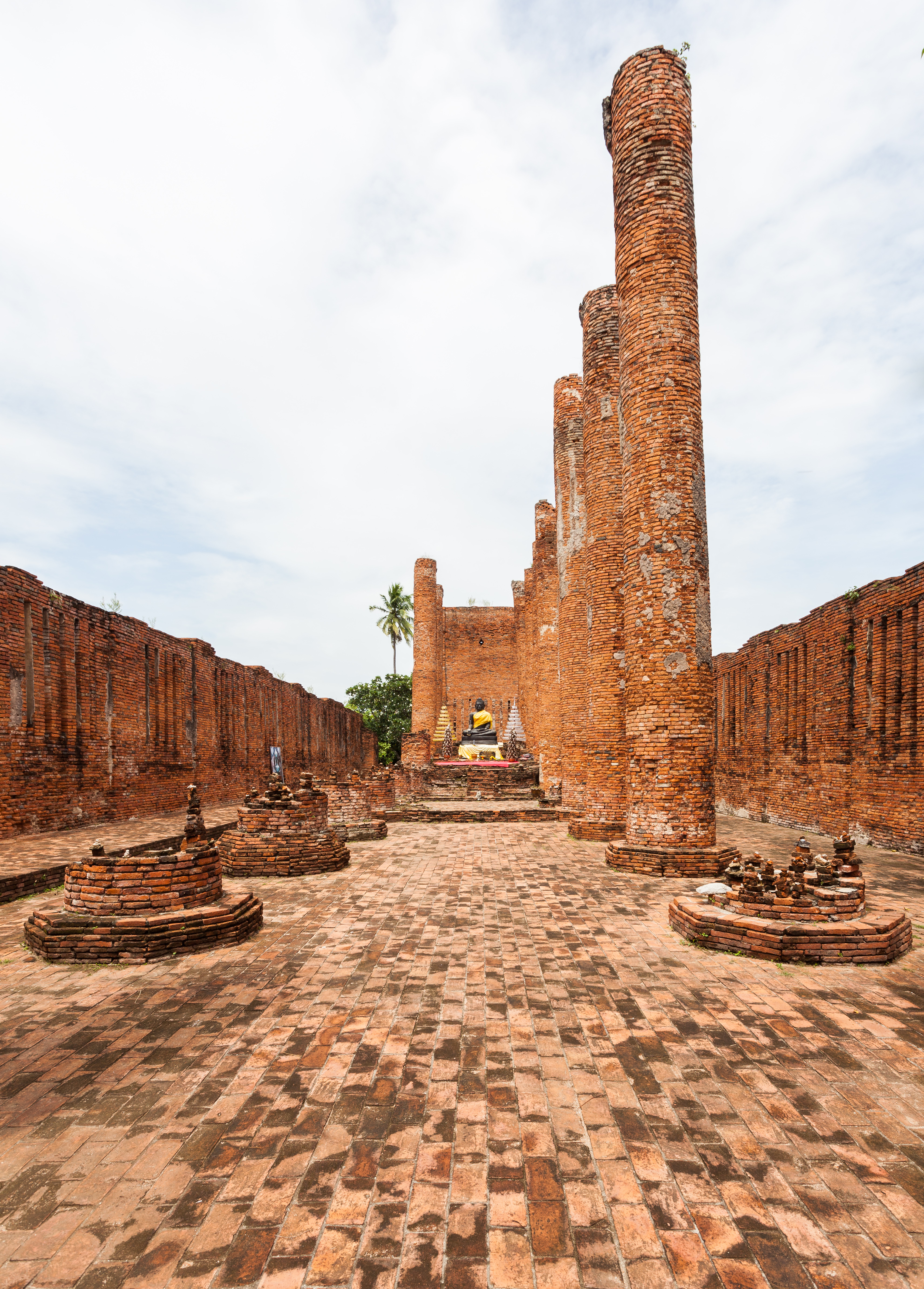 Thammikarat Temple, Ayutthaya, Thailand